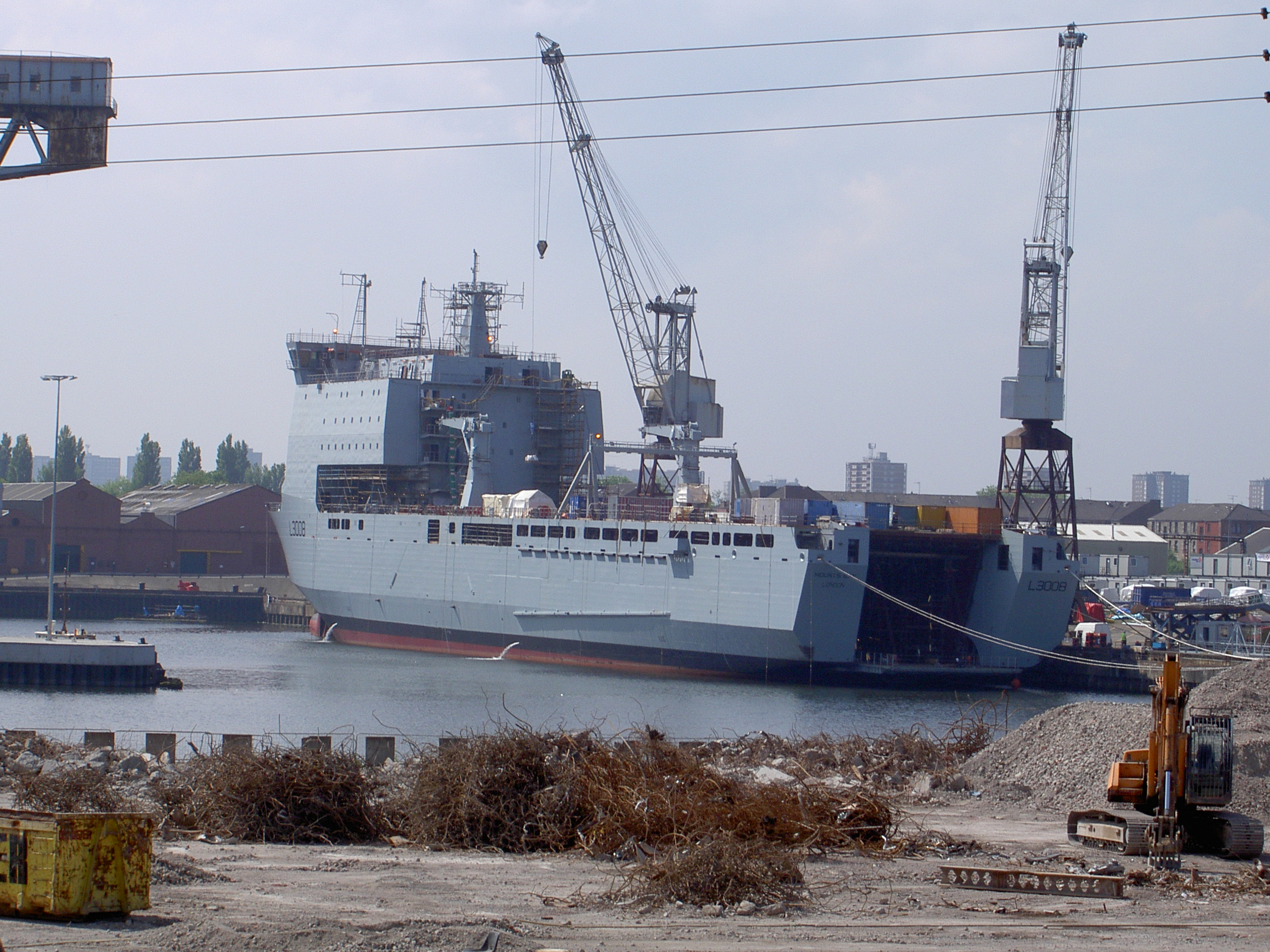 RFA Mounts Bay L3008 02Jun04 River Clyde.